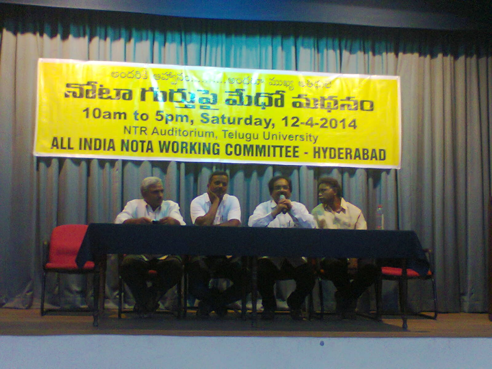 నోటా గుర్తు పై మేధో మథనం